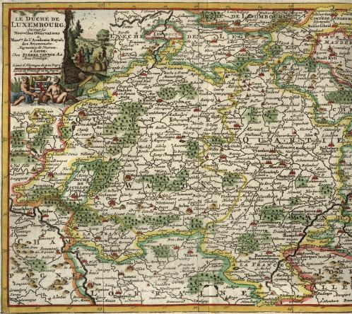 Historical map of Luxembourg